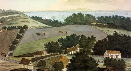 Water colour of Vallerød's fields in Hørsholm, Denmark